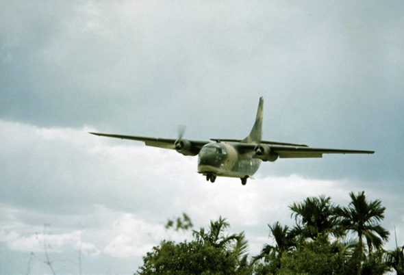 A Fairchild C-123B Provider landing at Bien Hoa Air Base, South Vietnam, circa in the mid-1960s.